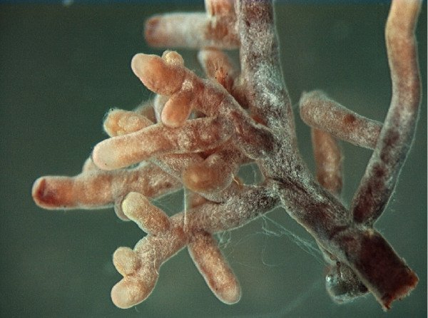 Root-tip mycelia of the Amanita type.